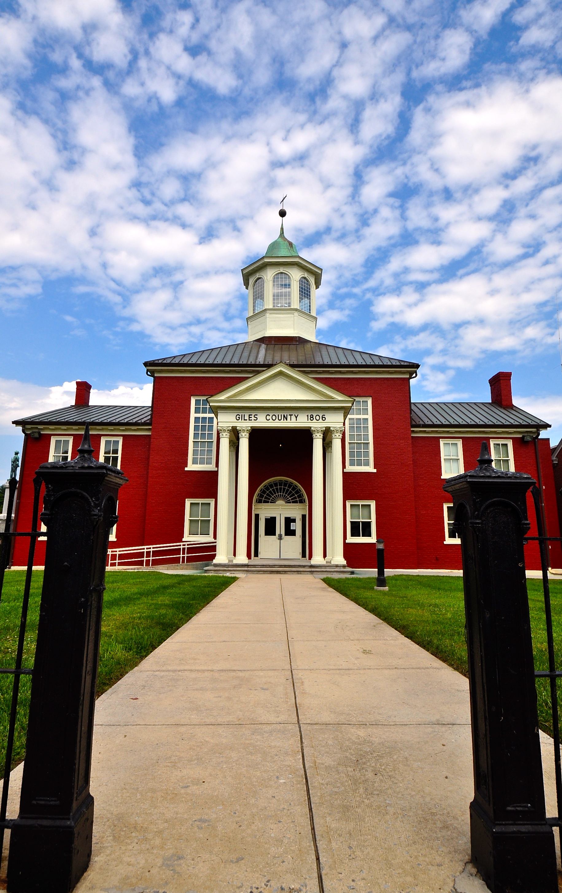 Giles County Courthouse, U.S. Route 460 and State Route 100 Pearisburg